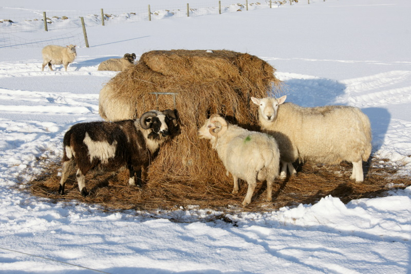 Sheep feeding on silage in the snow, Baltasound, near to Baltasound, Shetland Islands, Great Britain. A variety of breed according to my inexpert eye.